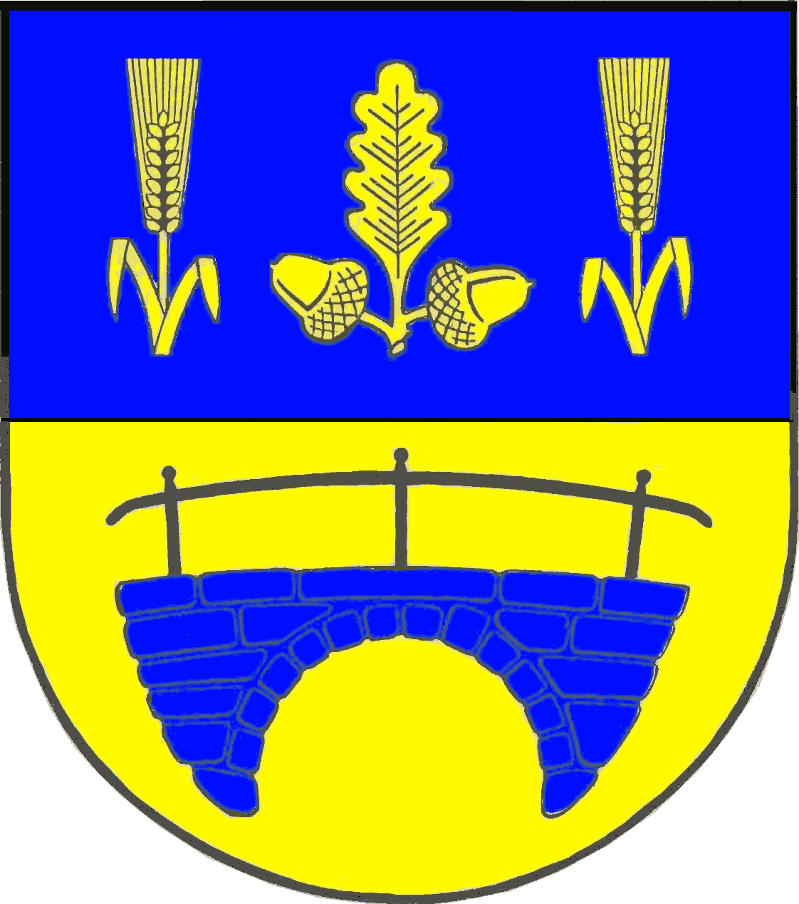 Coat of arms of the municipality Freienwill in Schleswig-Holstein, Germany.